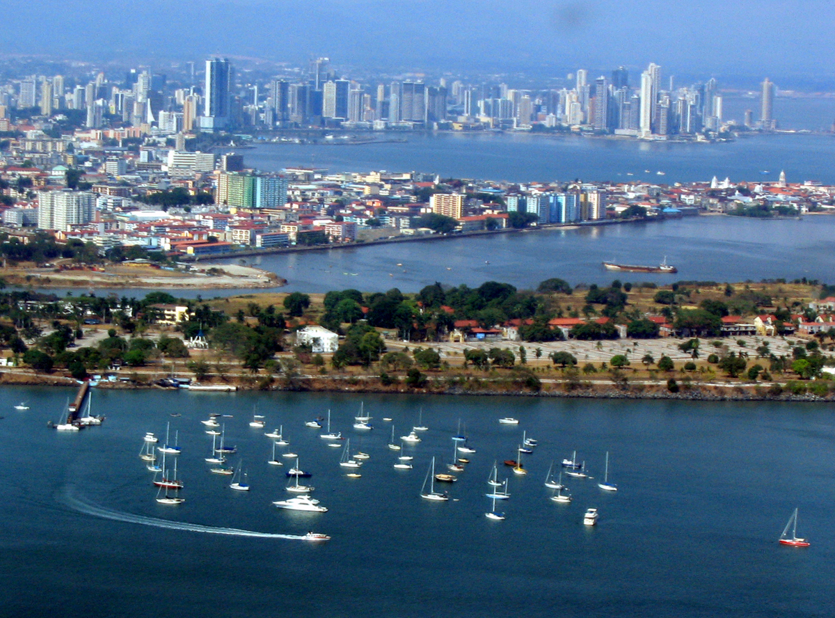 Panama City's beautiful skyline from a two-seater CeSsna. My wife took this one and the next. I was safely on the ground!